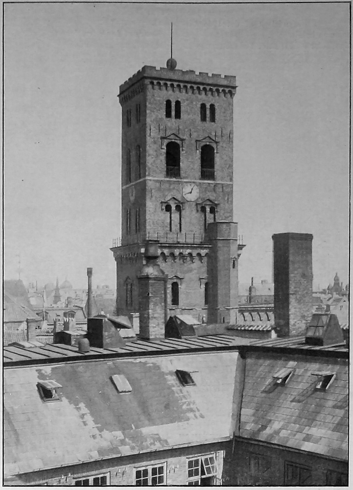 The tower of the former Sct. Nikolaj Kirke (Church). Most of the original church was destroyed by fire in 1795 leaving only the tower. It was rebuilt in 1911 but the new building has never been used as church. It is now an art gallery Kunsthallen Nikolaj.